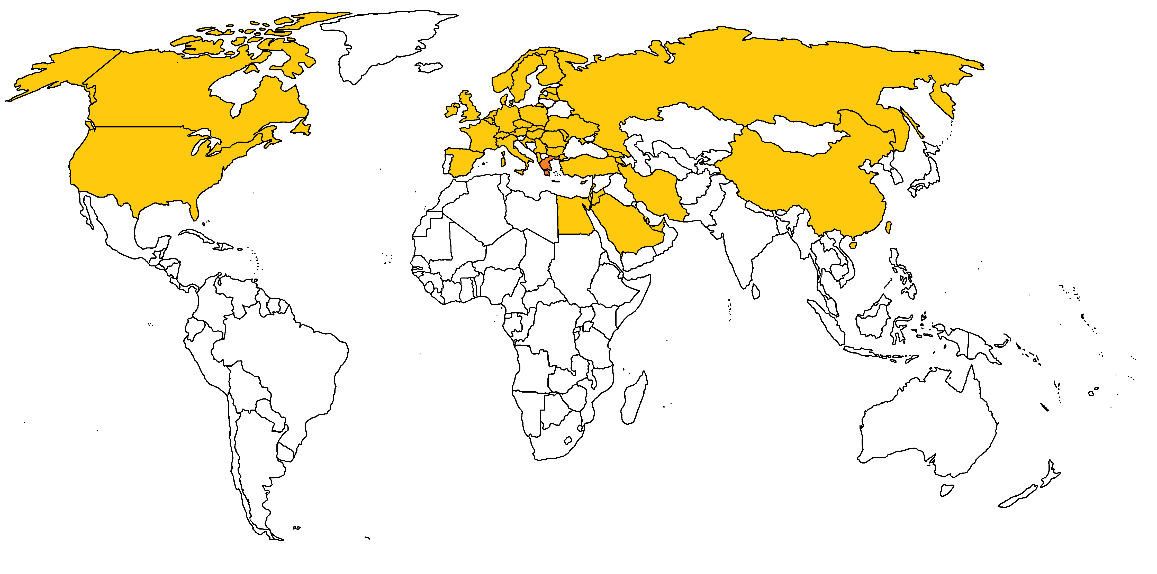 Athens International Airport Coutries Destinations